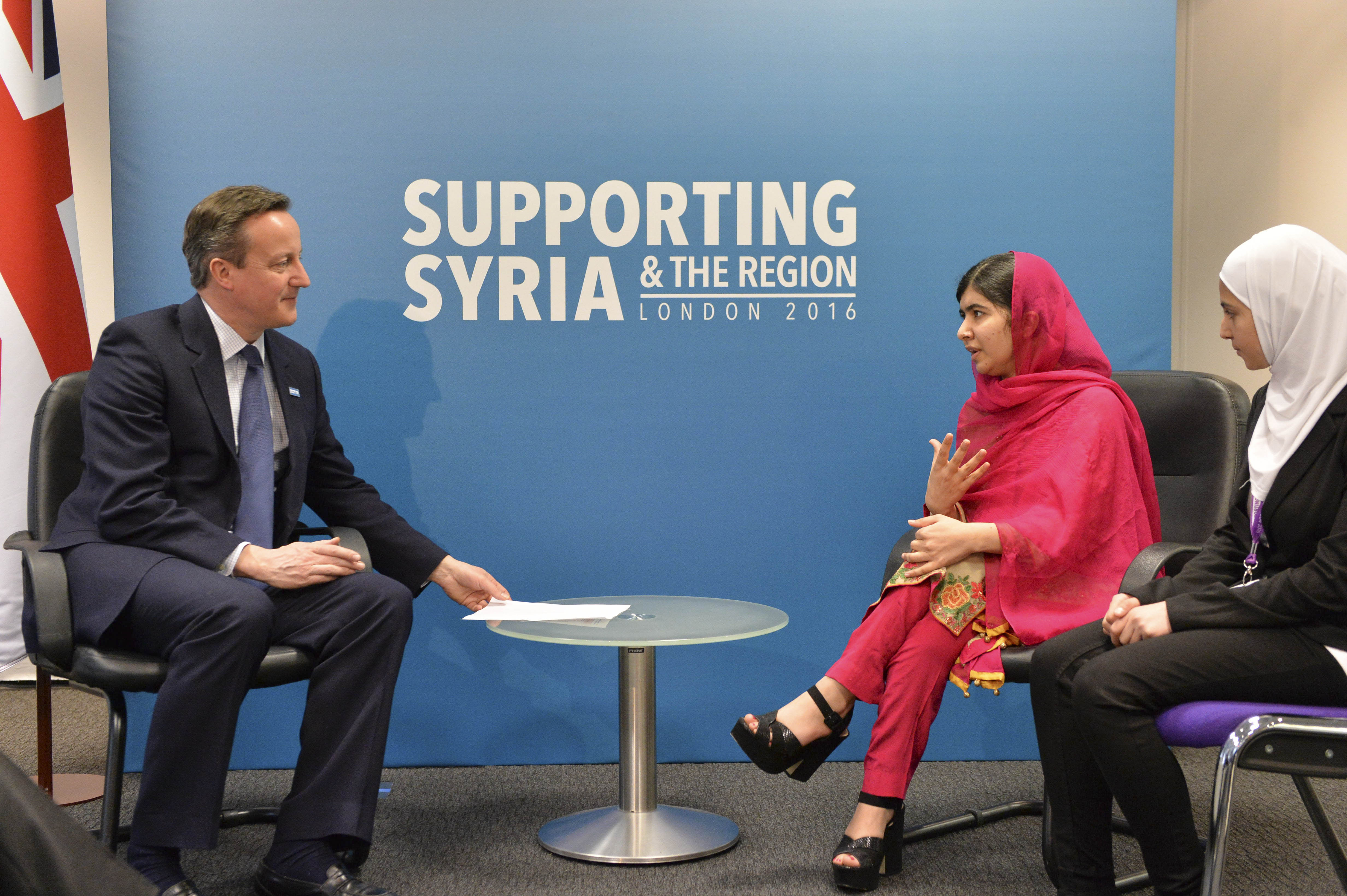 David Cameron meets with Malala Yousafzai at the Syria Conference. BACKGROUND The Supporting Syria and the Region conference took place in London on 4 February 2016. It brought together world leaders in a bid to raise the money needed to help the millions of people whose lives have been torn apart by the devastating civil war in Syria. Syria is the world's biggest humanitarian crisis. Billions of dollars in international aid are needed to support people caught up in the conflict. The UK, Germany, Kuwait, Norway, and the United Nations co-hosted the conference to raise significant new funding to meet the immediate and longer-term needs of those affected. The conference also set ambitious goals on education and economic opportunities to transform the lives of refugees caught up in the Syrian crisis - and to support the countries hosting them. This event alone cannot solve all these problems. Ultimately a political solution is necessary to bring the Syrian conflict to an end. Find out more: FREE-TO-USE PHOTO This image is in the public domain and free-to-use, as long as you credit the source as: Georgina Coupe/Crown Copyright